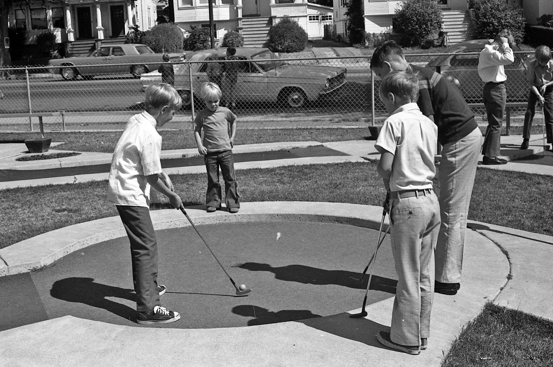 Boys playing miniature golf in Alameda County, California, 1963 Other information Photo by George Garrigues.